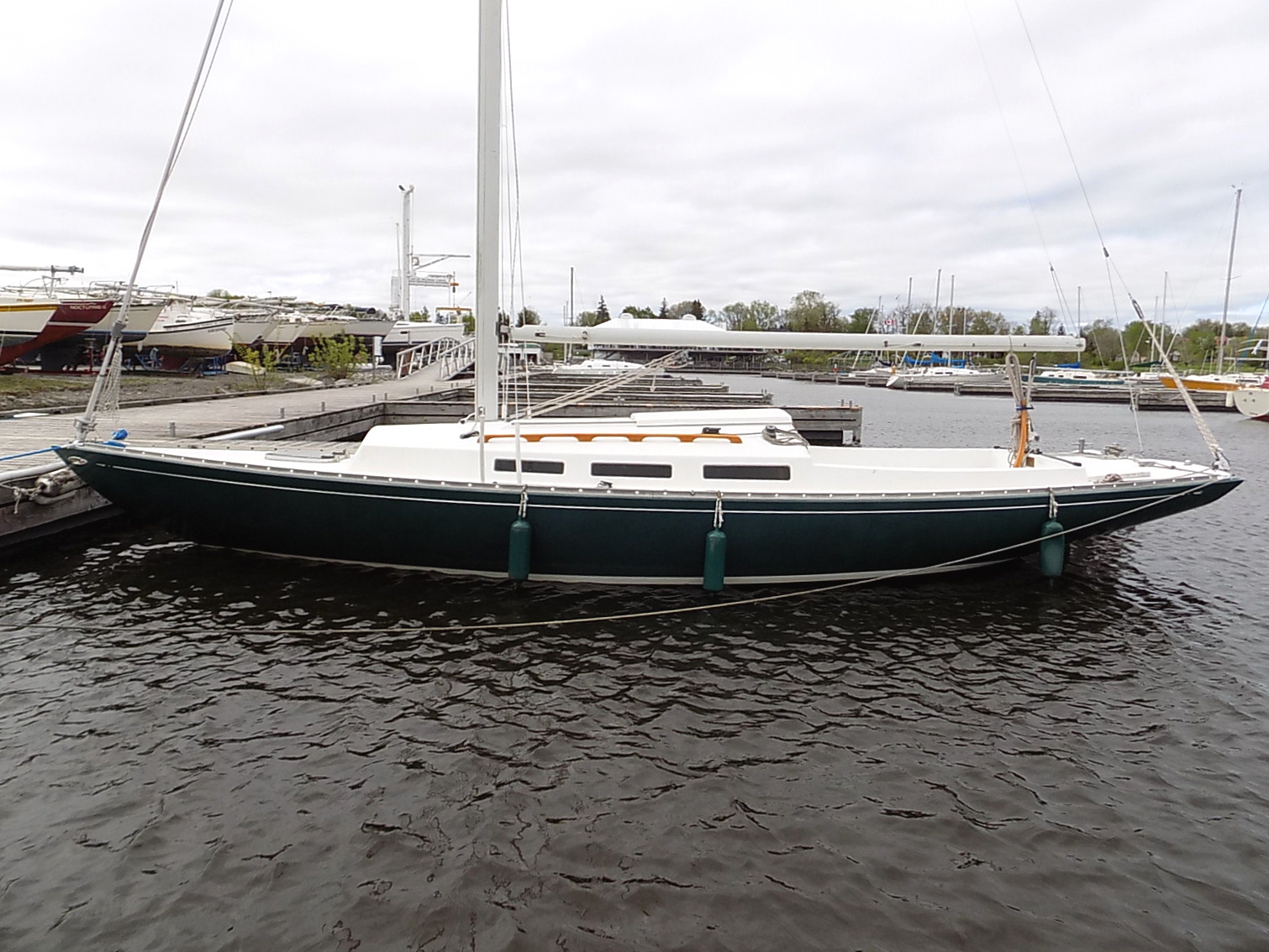 A Roue 20 sailboat named Presto.